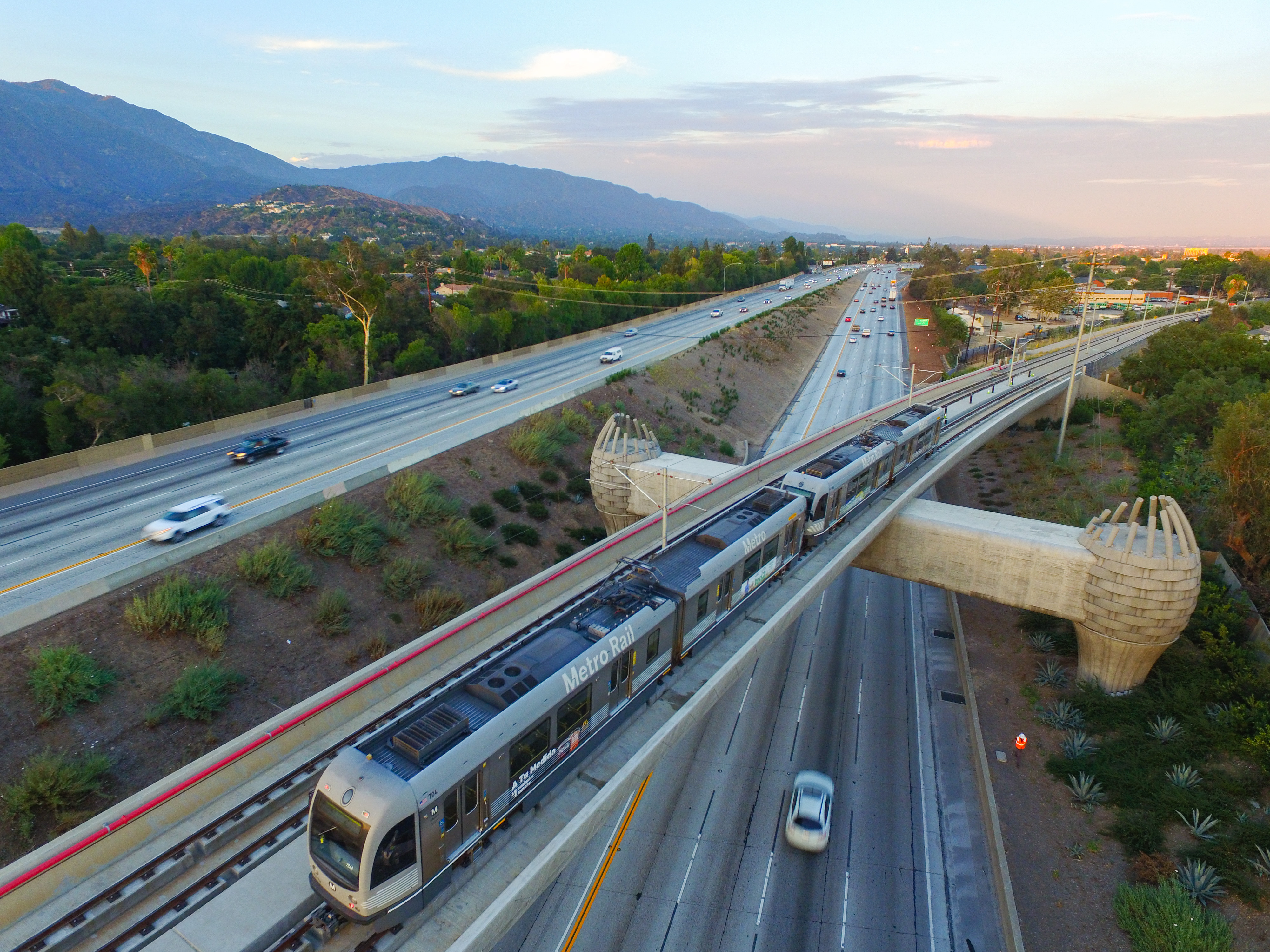 This is the bridge for the Gold Line which crosses over the I-210.